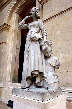 Jeanne d'Arc écoutant ses voix (Joan of Arc listening to her voices). Marble, commissioned in 1842 for a series about "famous women" intended for the Jardin du Luxembourg in Paris; exhibited at the Salon of 1852.